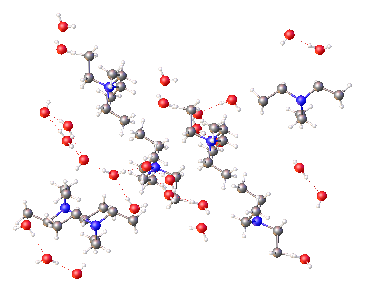 Structure of Et4NOH.H2O from doi 10.1107/S0108270100005886